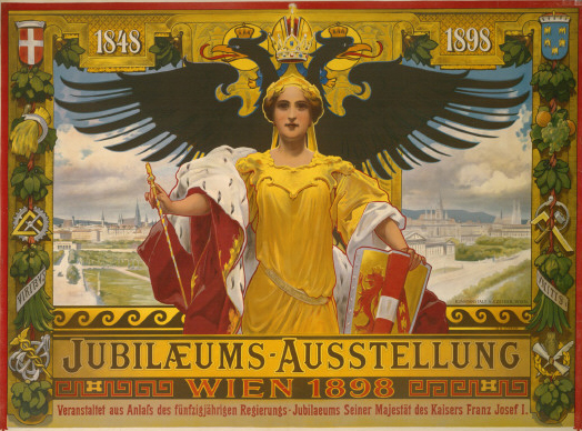 Poster of the Jubilee Expo Vienna 1898